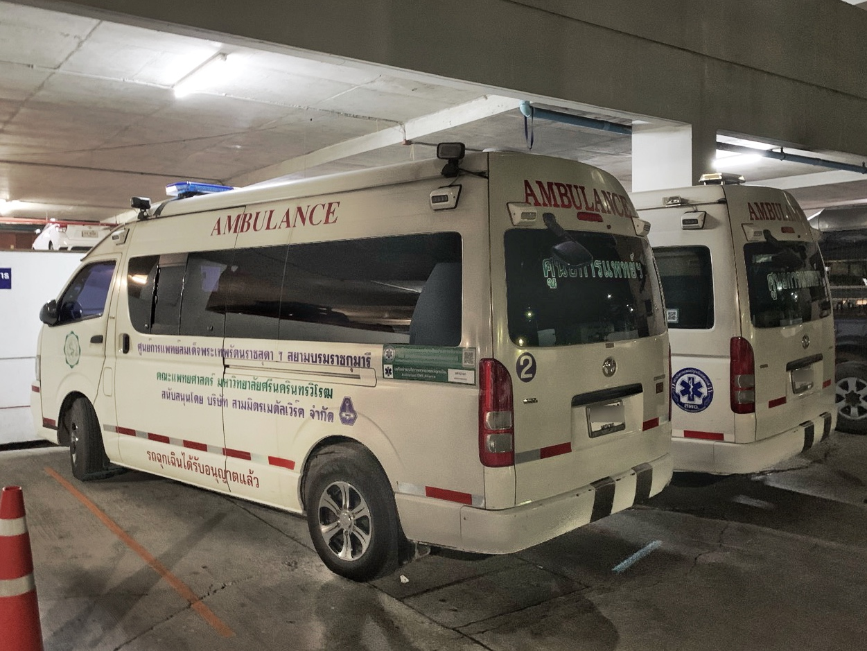 Ambulance of HRH Maha Chakri Sirindhorn Medical Centre, Nakhon Nayok Province, Thailand